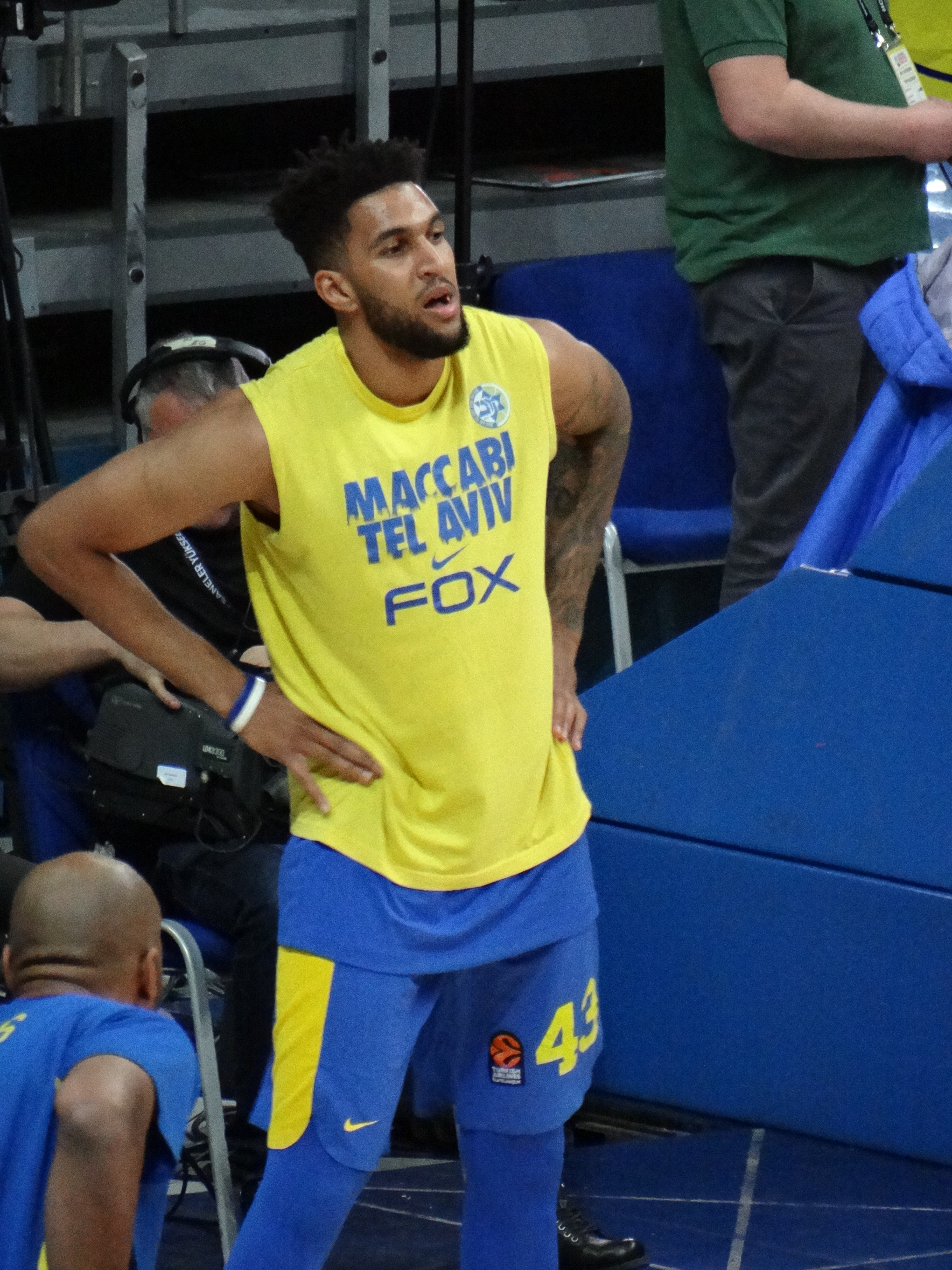 Jonah Bolden 43 Maccabi Tel Aviv B.C. EuroLeague 20180320